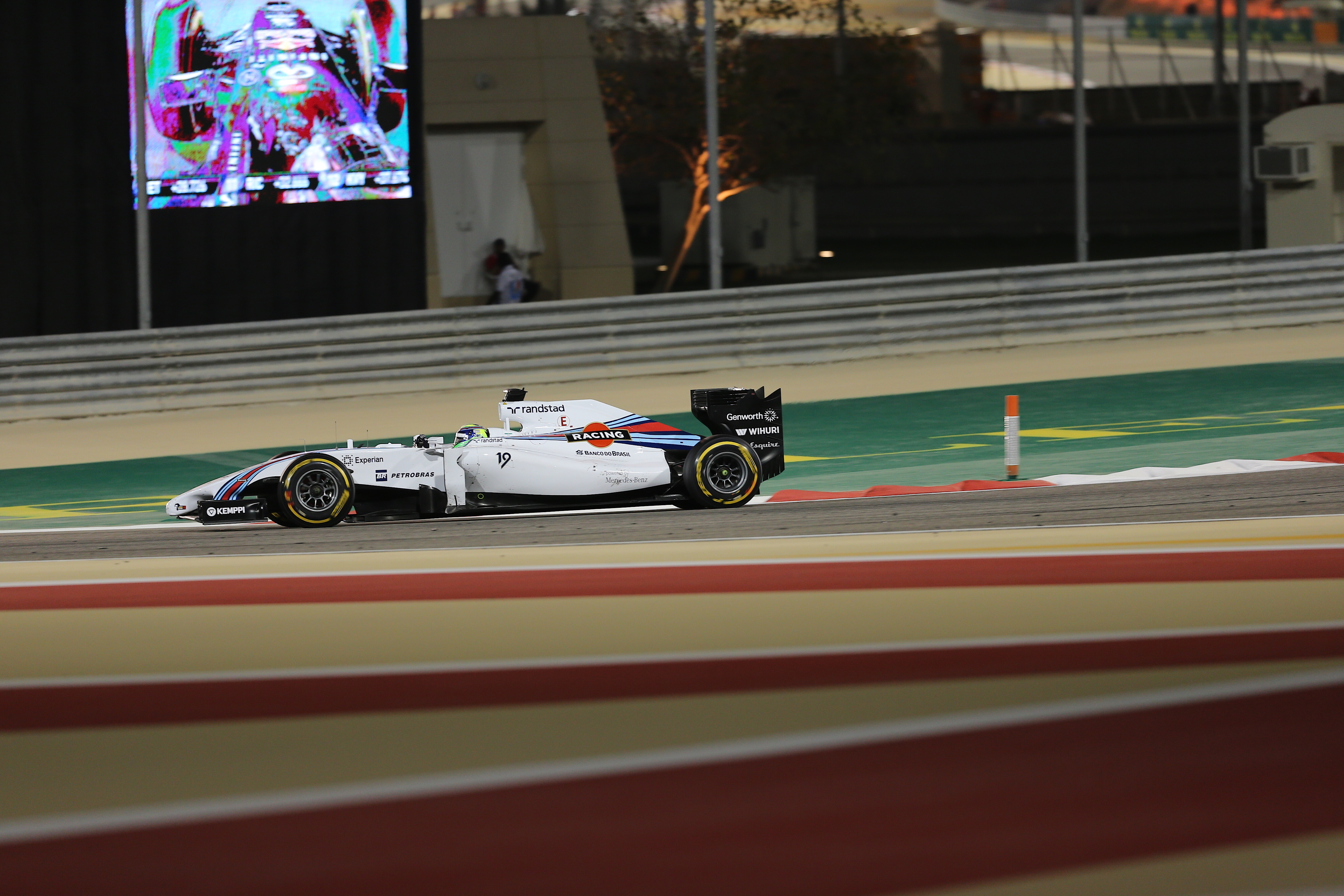 Felipe Massa on WIlliams FW36 at the 2014 Bahrain Grand Prix